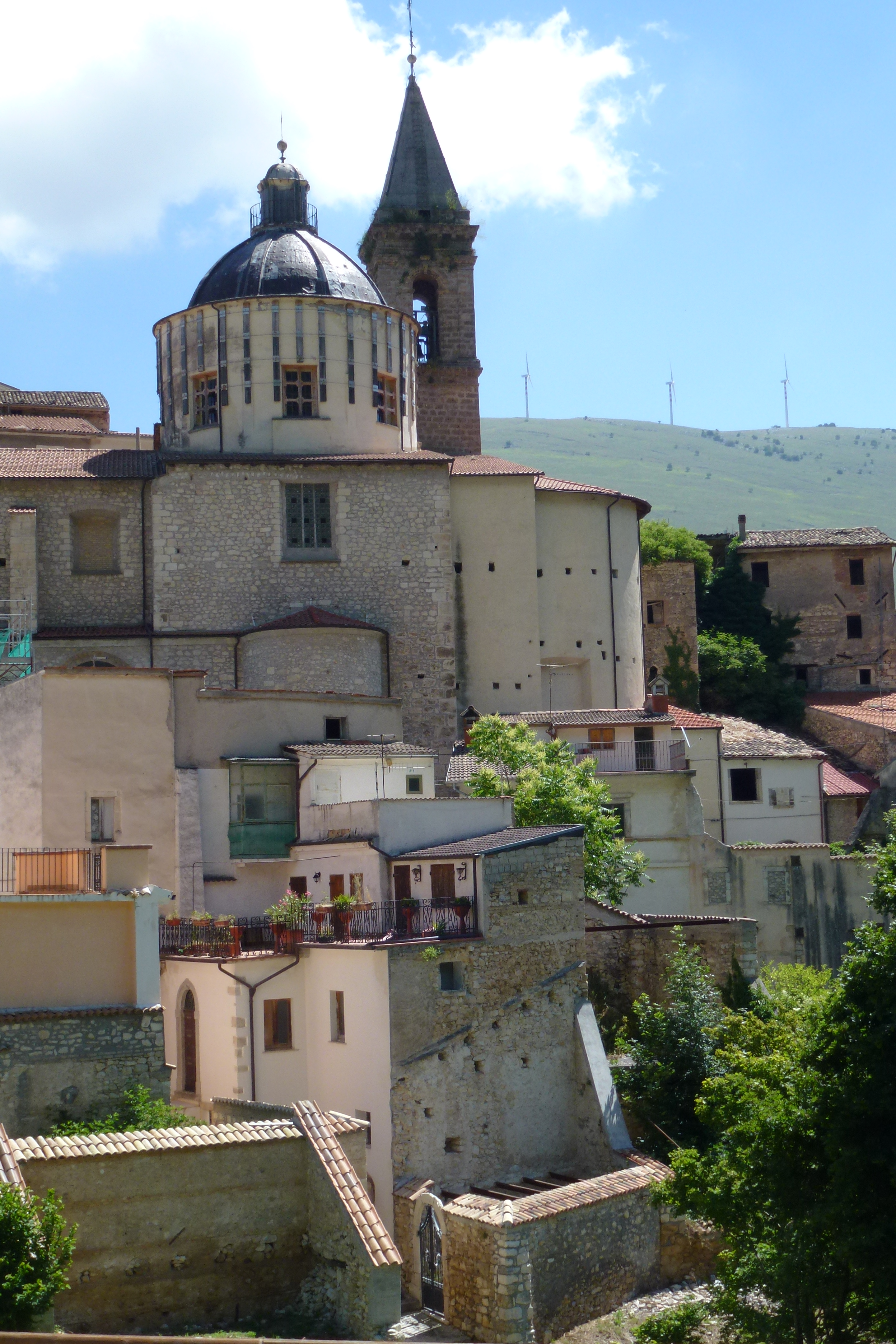 67030 Cocullo AQ, Italy